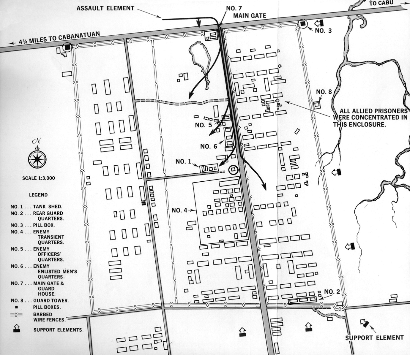 Bird's eye view illustration of the actions taken by the US Rangers in their Raid at Cabanatuan